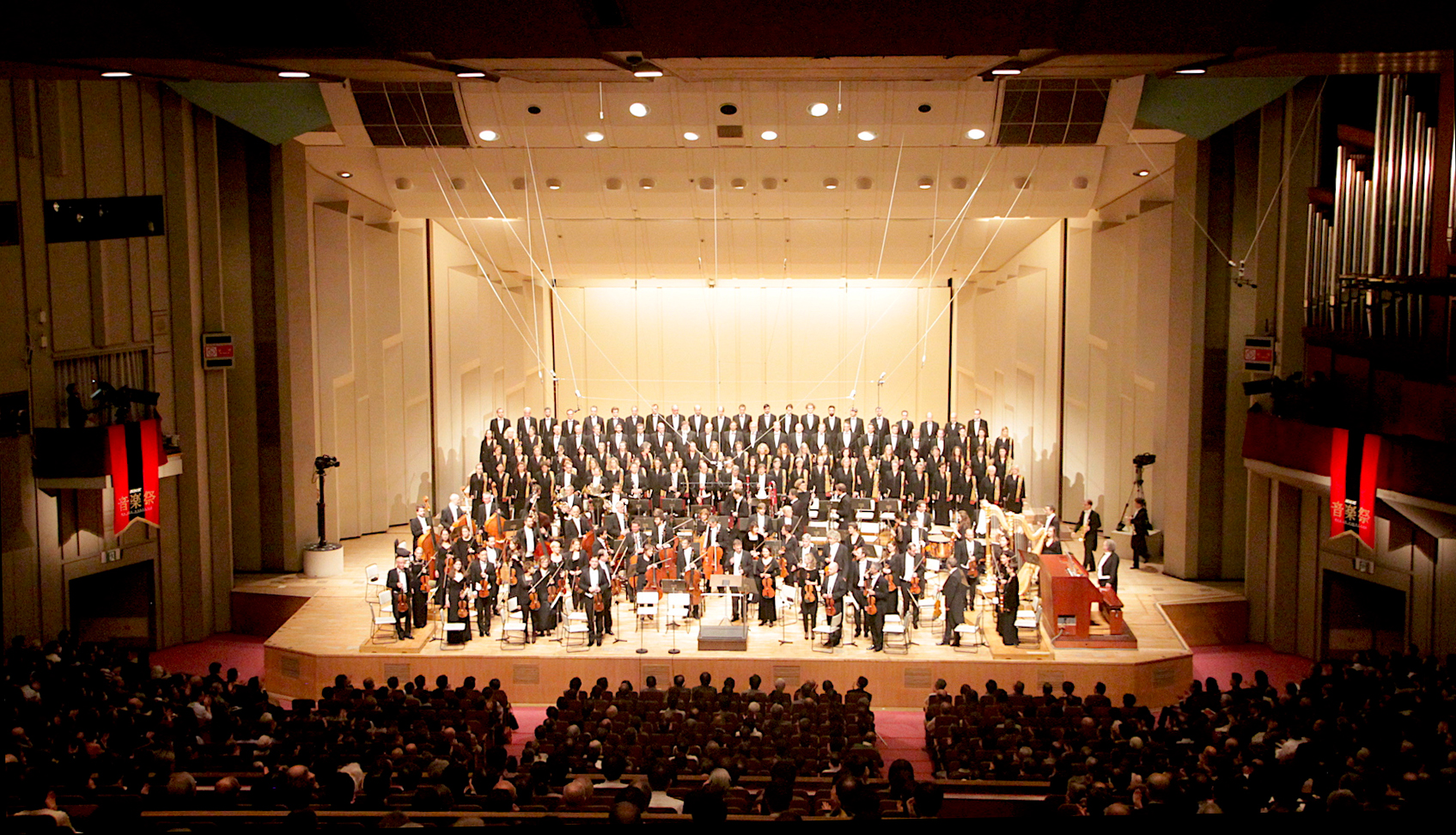 Herbert Blomstedt Brahms Concert November 13 2017